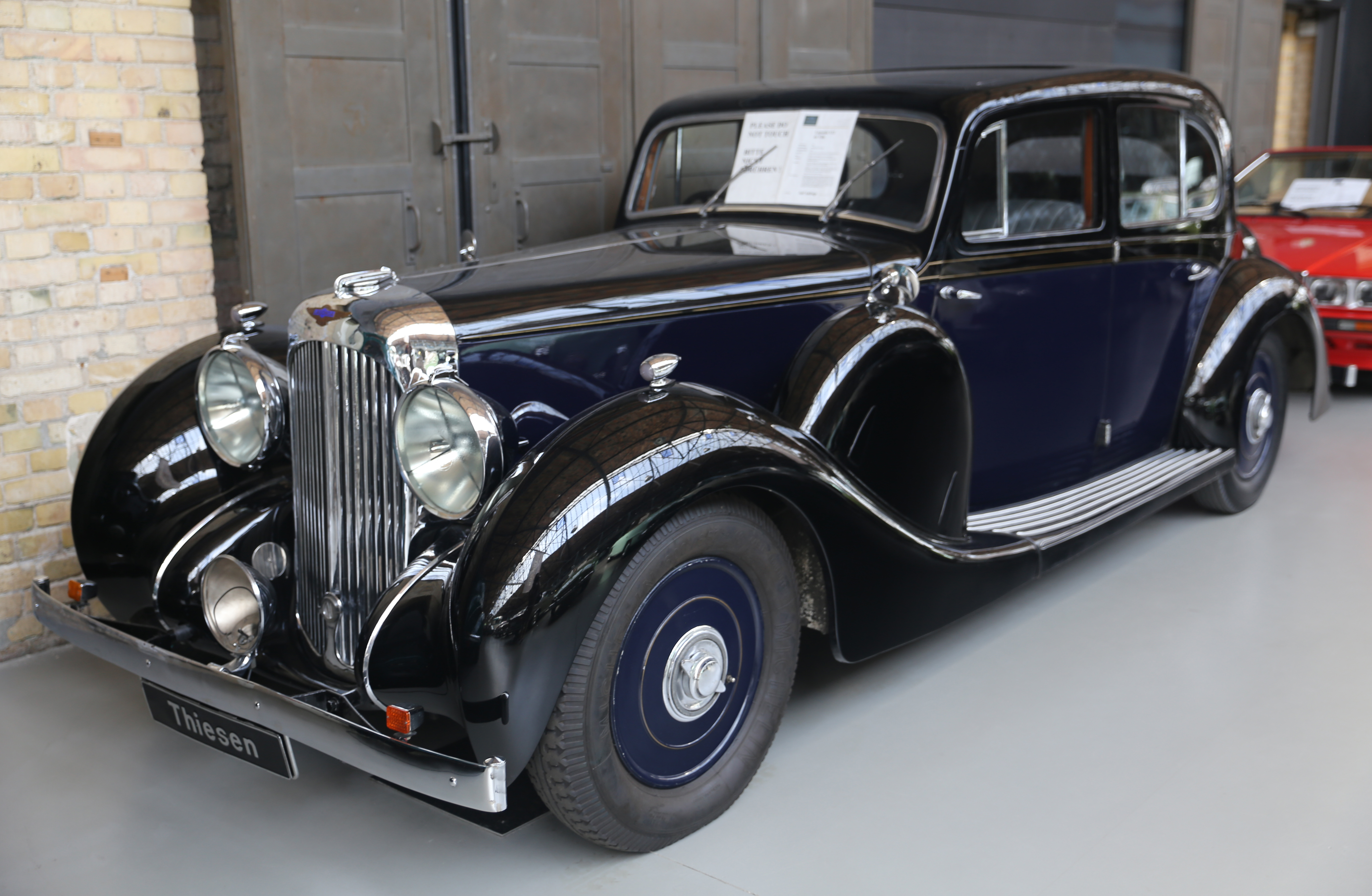 1939 Lagonda V12 de Ville at Thiesen (Classic Remise Berlin). Out of 189 Lagonda V12s, this is one of only 10 built on the longest wheelbase (10'4", 11'0" and 11'6" were available; the longer models also received a taller radiator to preserve the proportions of the car) and one of only 41 phase 2 cars. Michelin 600/650 x 18" tires, Lagonda G10 gearbox, has been equipped with an EZ power steering unit. Chassis number 16032, original registration DRT 366. Originally delivered to Lagonda founder Wilbur Gunn's grandson in February 1939, after which it passed into the hands of the Seychelles' Consul in London. His wife, the Countess of Prussia, brought the car to Germany where it has spent a lot of time. Sold at Thiesen (Classic Car Remise, Berlin) in Summer 2017. Was also sold at auction in 2003 and was for sale in the Netherlands in 2015. Was also seen at the 2011 FIVA Midsummer Rally in Sweden, when the car still carried a consular "CC" oval.